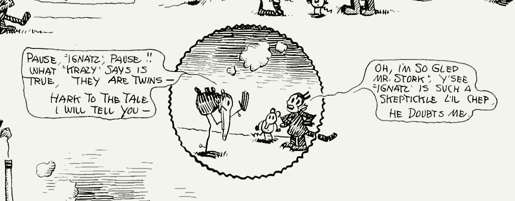 Detail of Krazy Kat strip by George Herriman for 1917-11-04